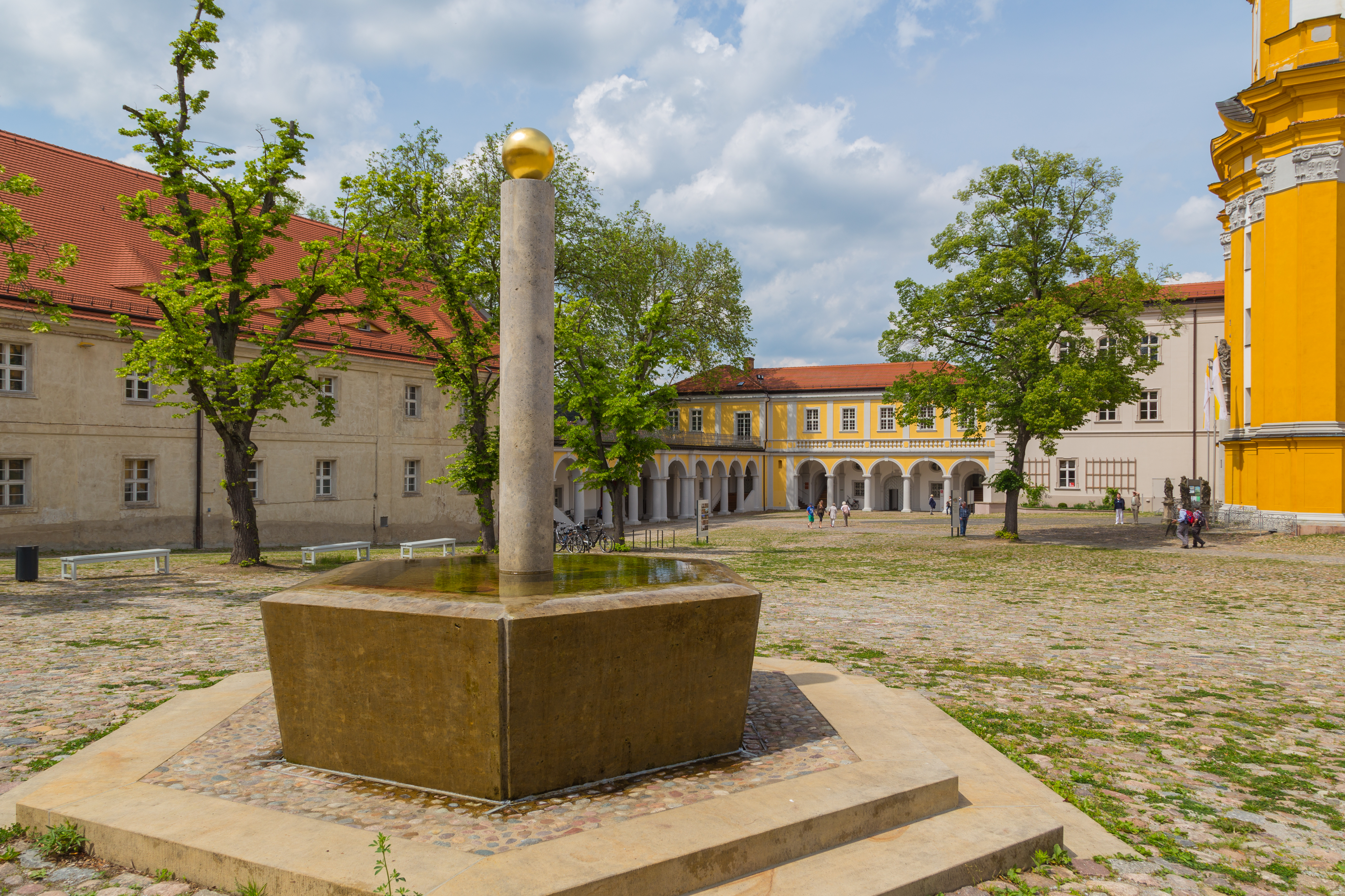 Fountain at Monastery Square (Stiftsplatz) of Neuzelle Monastery (Kloster Neuzelle) in Neuzelle, Landkreis Oder-Spree, Brandenburg, Germany.